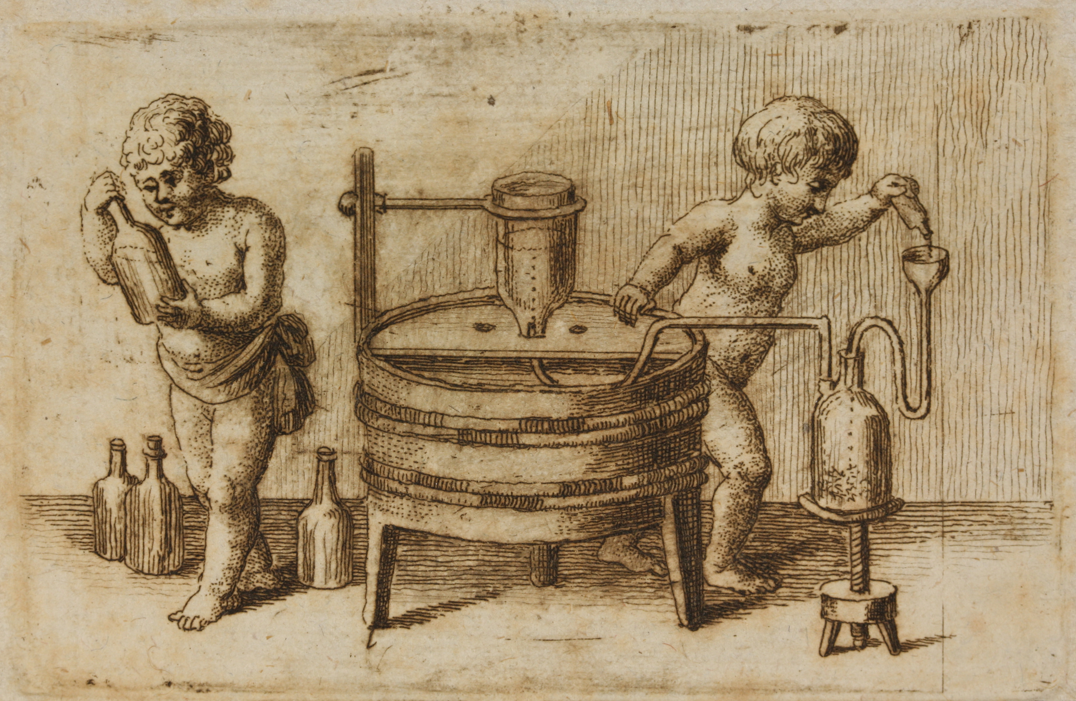 Detail of title page from Bemerkungen über gemeines Wasser, und besonders über natürliche und künstliche Mineralwasser (Winterthur: Ziegler, 1799) In Switzerland, physicist and mathematician Jakob Ziegler (1775−1863) became involved in the chemical analysis of mineral waters, and attempted to formulate artificial mineral waters for therapeutic use.